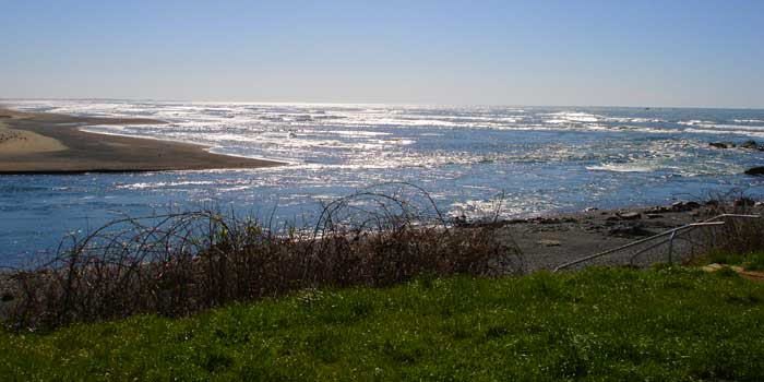 Where the Smith River meets the Pacific Ocean in Del Norte County, CA